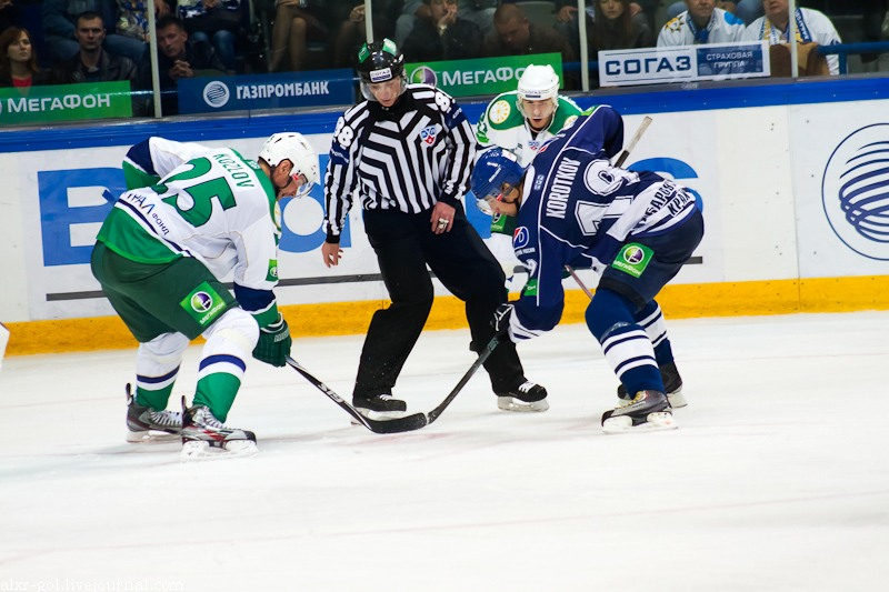 KHL game Amur Khabarovsk vs. Salavat Yulaev Ufa on September 24, 2011. Face-off Evgeny Korotkov (in blue) vs. Viktor Kozlov.